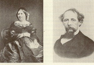 Catherine Hogarth-Dickens and Charles Dickens, joint photographs.